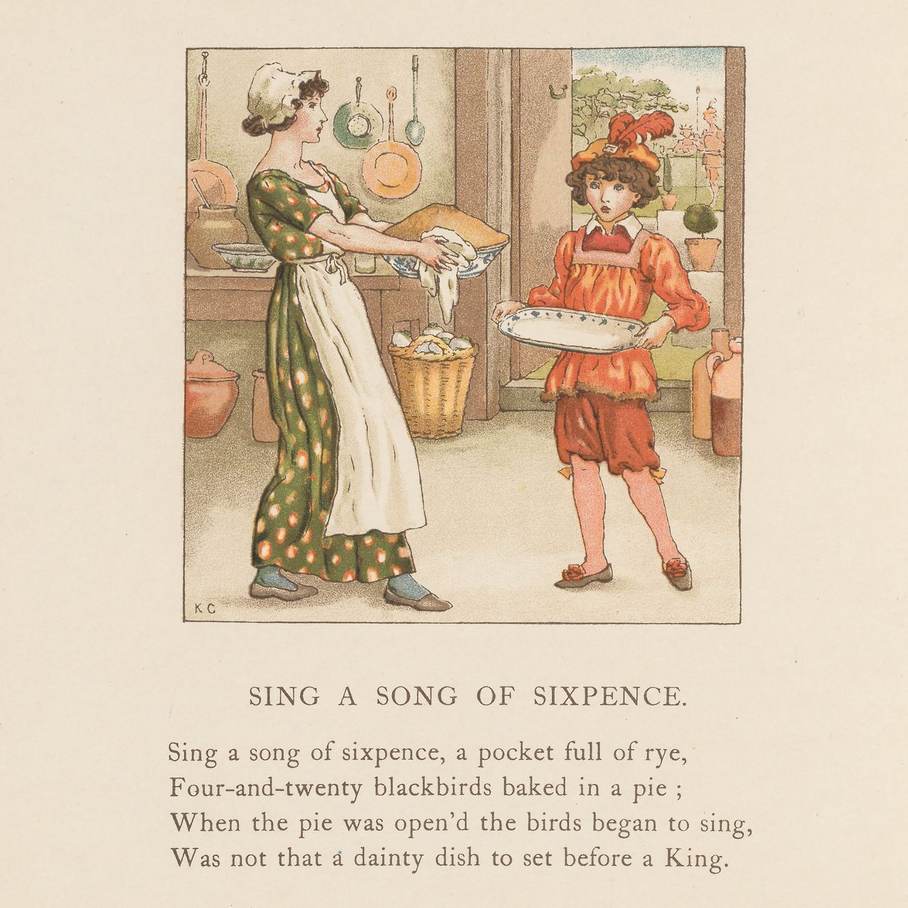 Illustration for "Sing a song of sixpence" from The April Baby’s Book of Tunes, 1900, by Elizabeth von Arnim, with art by Kate Greenaway. Typ 970.00.7590, Houghton Library, Harvard University